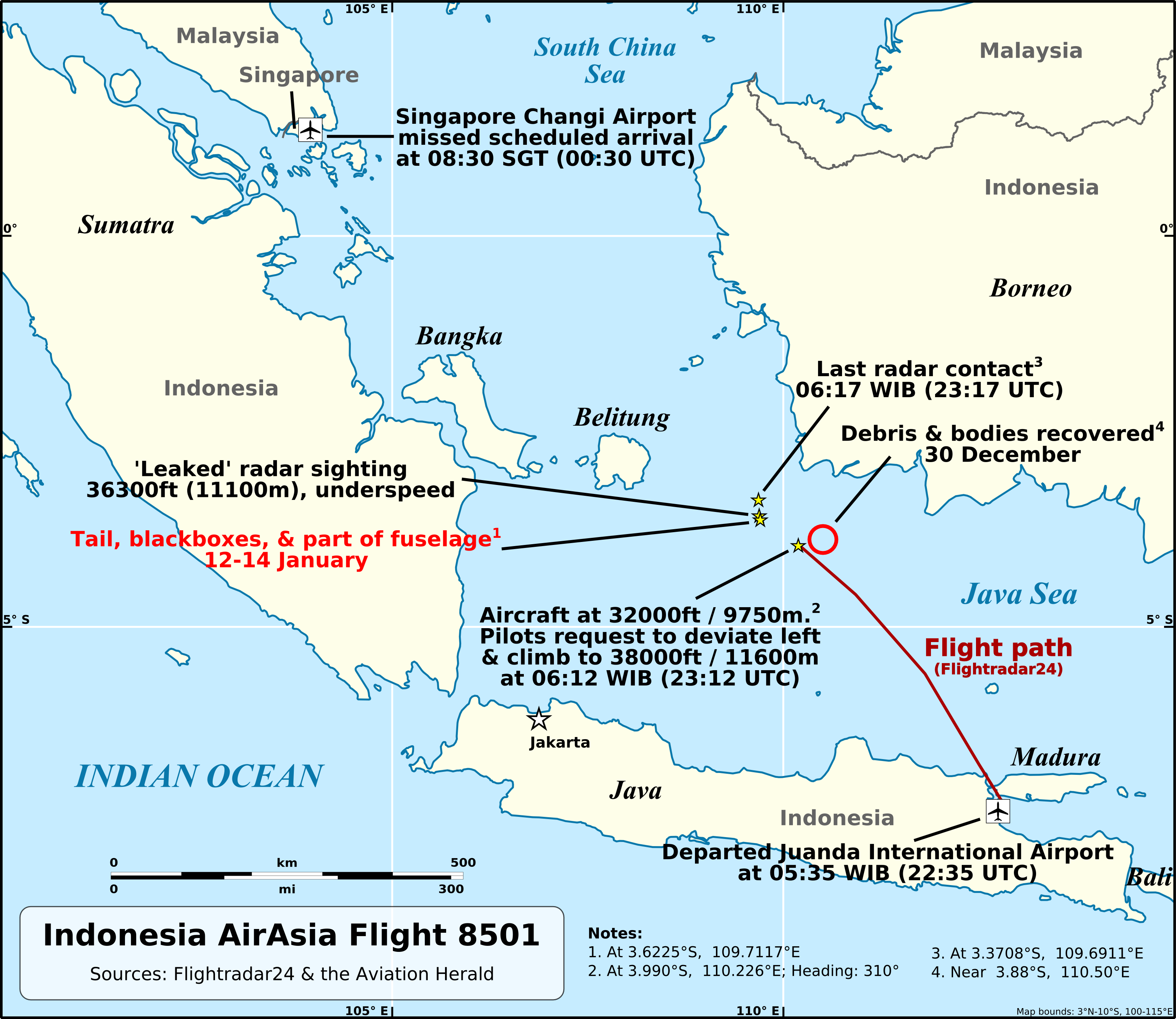 Flight path of Indonesia AirAsia Flight 8501.